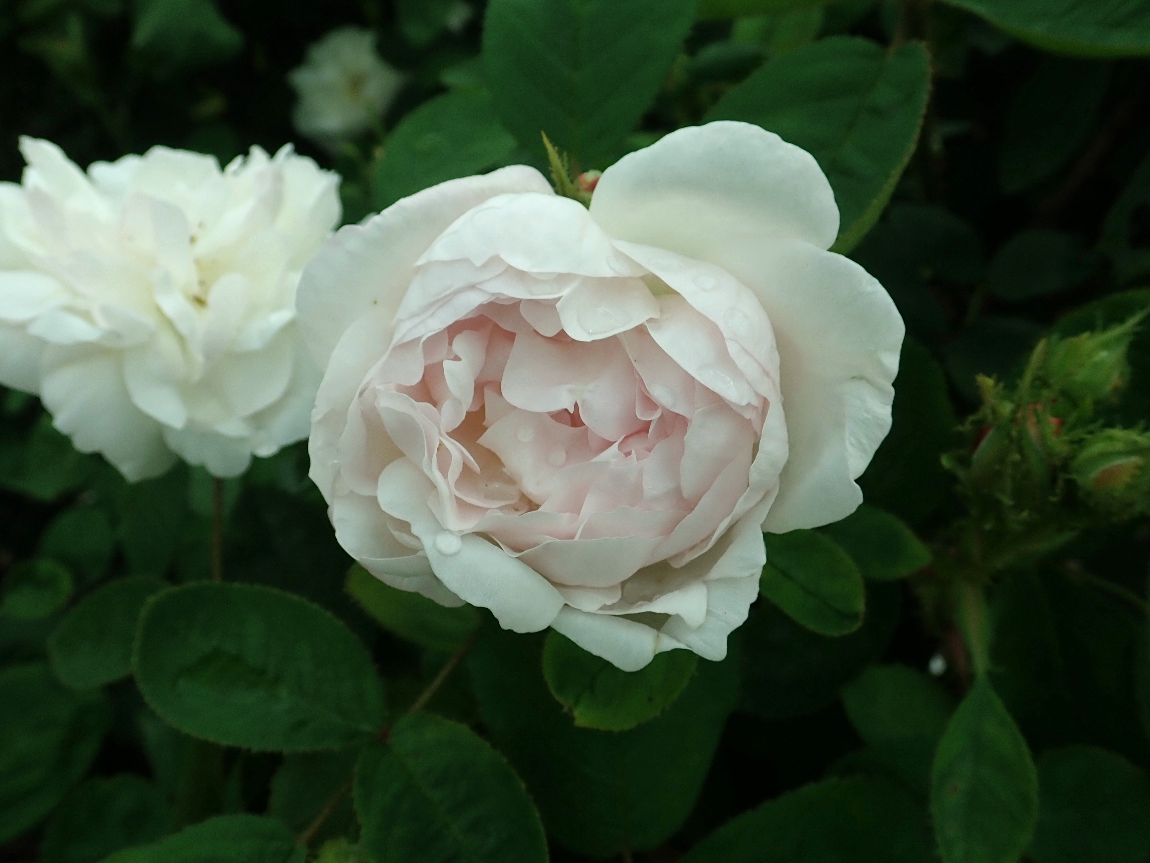 Rosa ‘Alfred de Dalmas’ (Portemer/Laffay, 1855), Europa-Rosarium Sangerhausen.